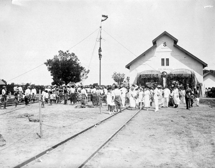 Opening festivities on 1 July 1923 of the tramline Makassar - Takalar, Sulawesi.